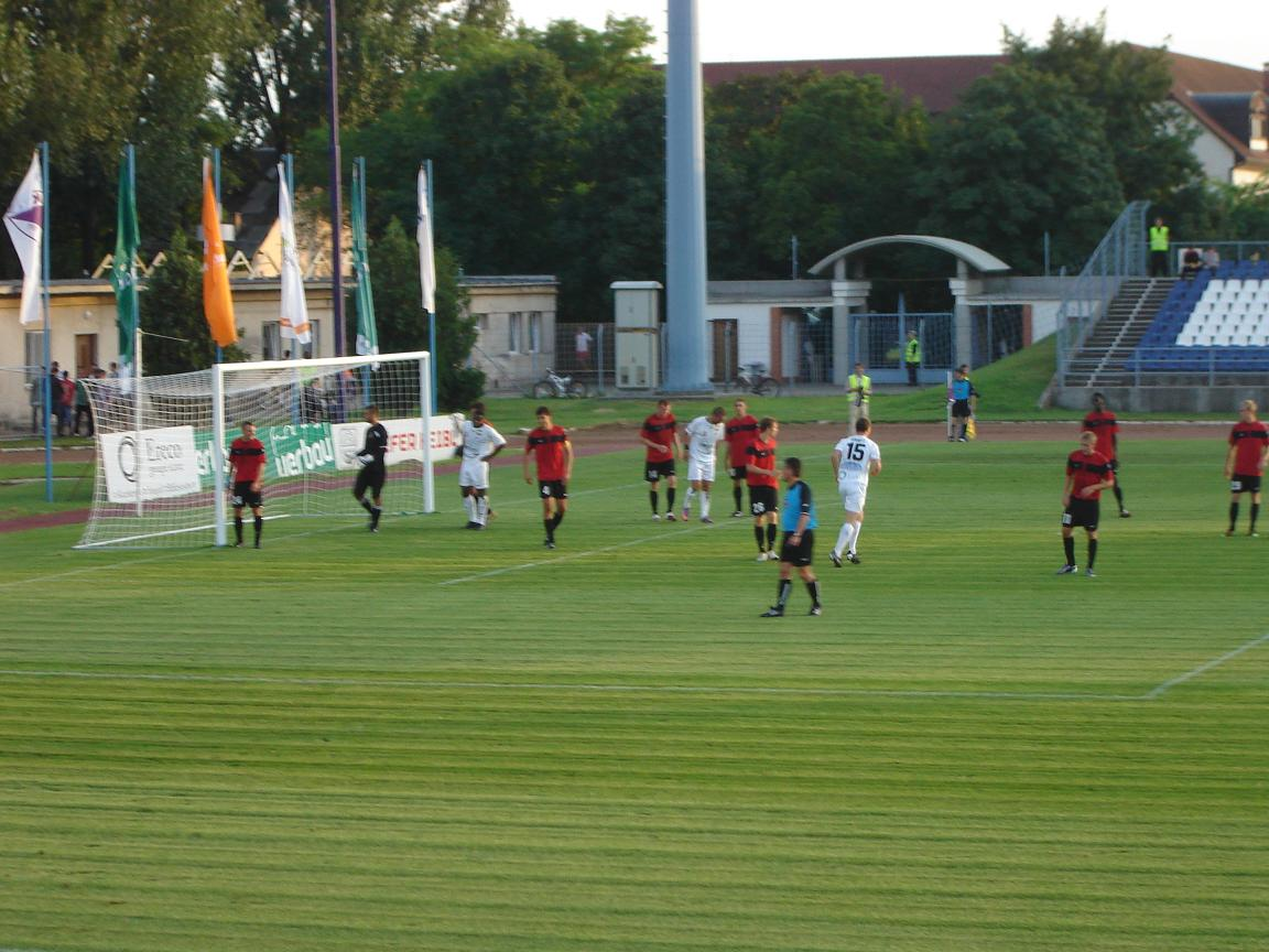 Kecskeméti TE - Budapest Honvéd FC Hungarian Leage cup match (2010-07-28)